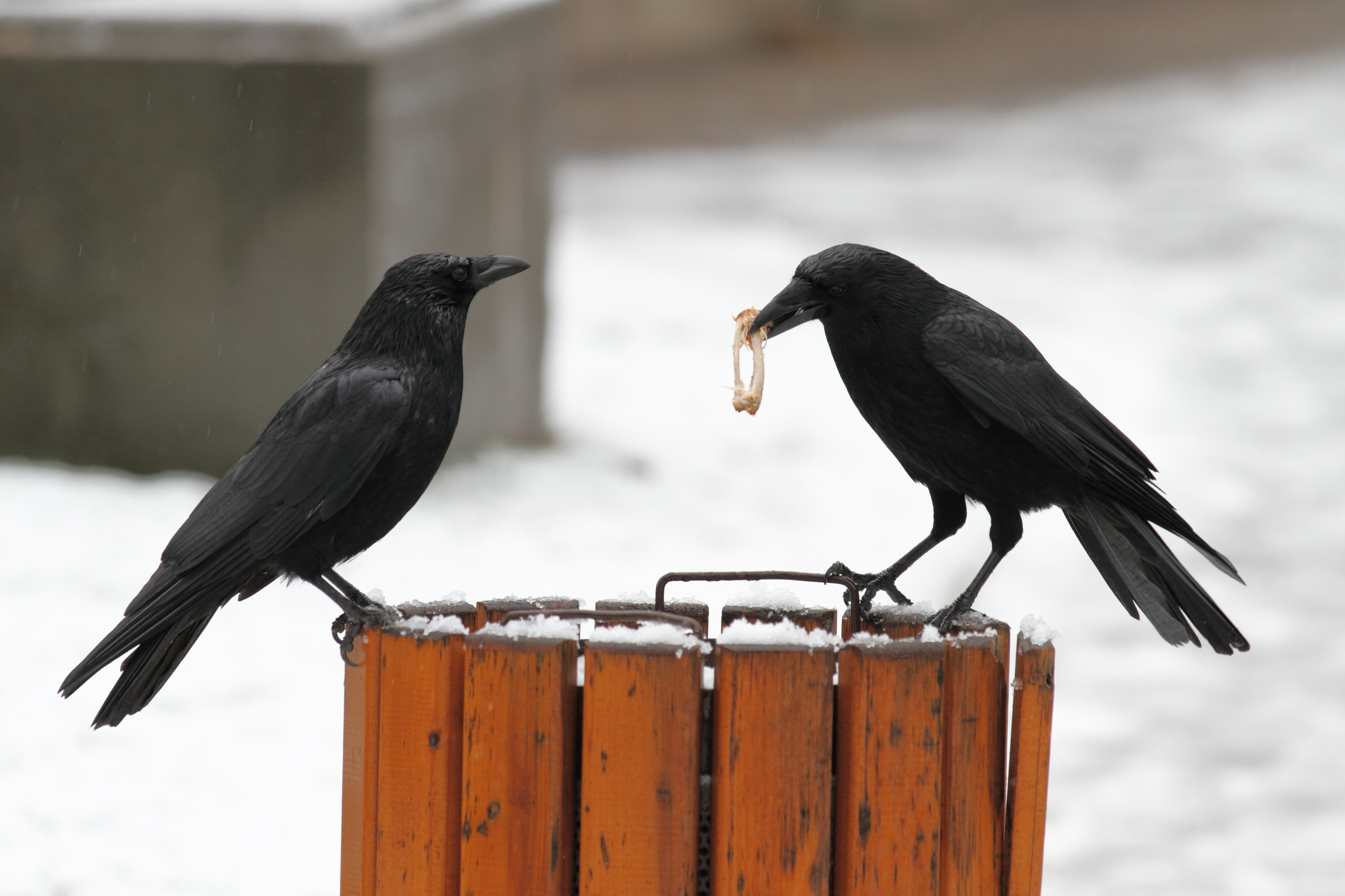 Carrion crows on a trash in Annecy on December 30th, 2011